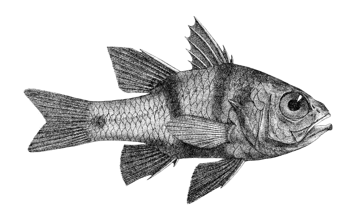 Apogonichthyoides taeniatus (=Apogon bifasciatus).